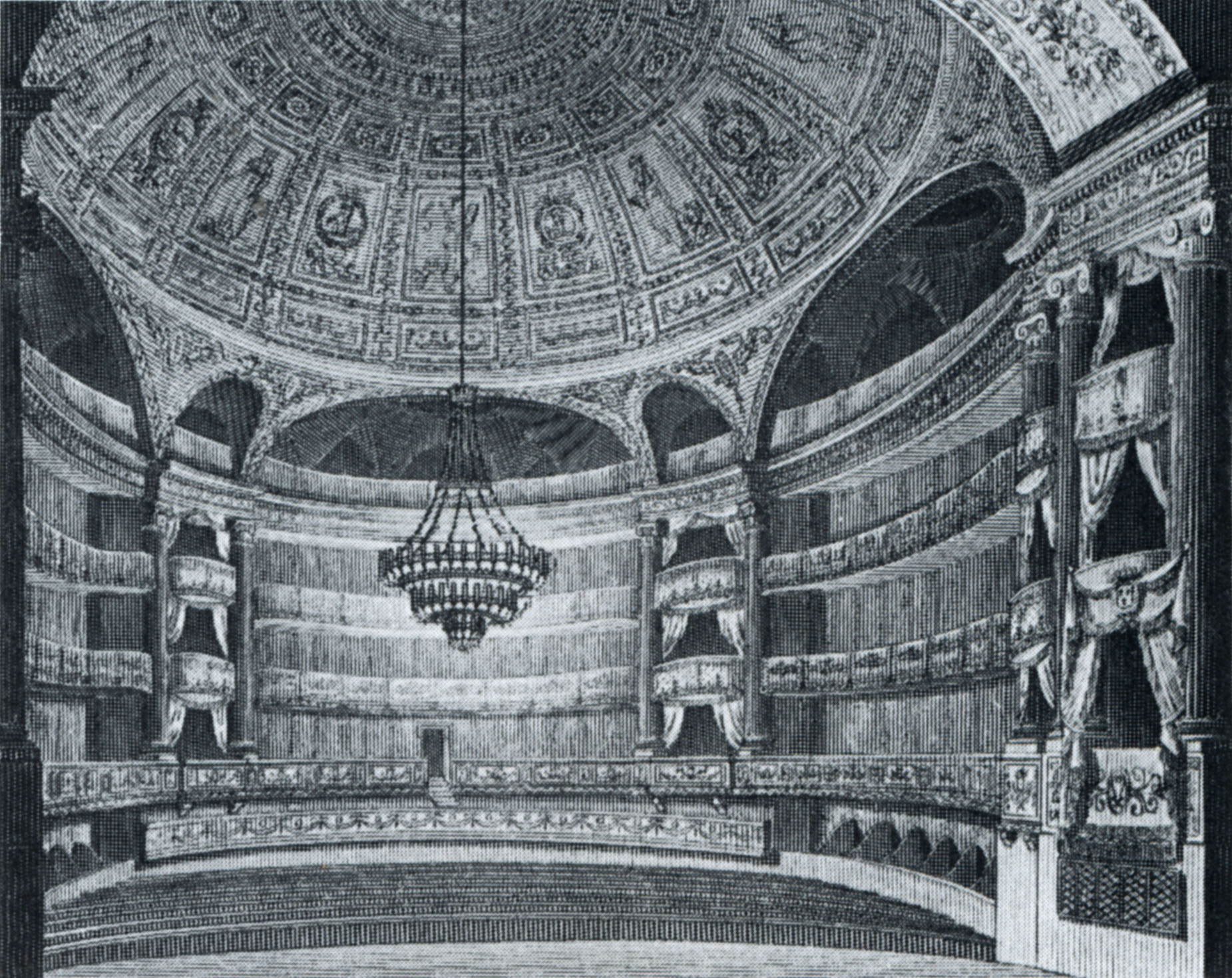 Auditorium of the Théâtre des Arts (Rue de la Loi), designed by Victor Louis, built 1791–1793.